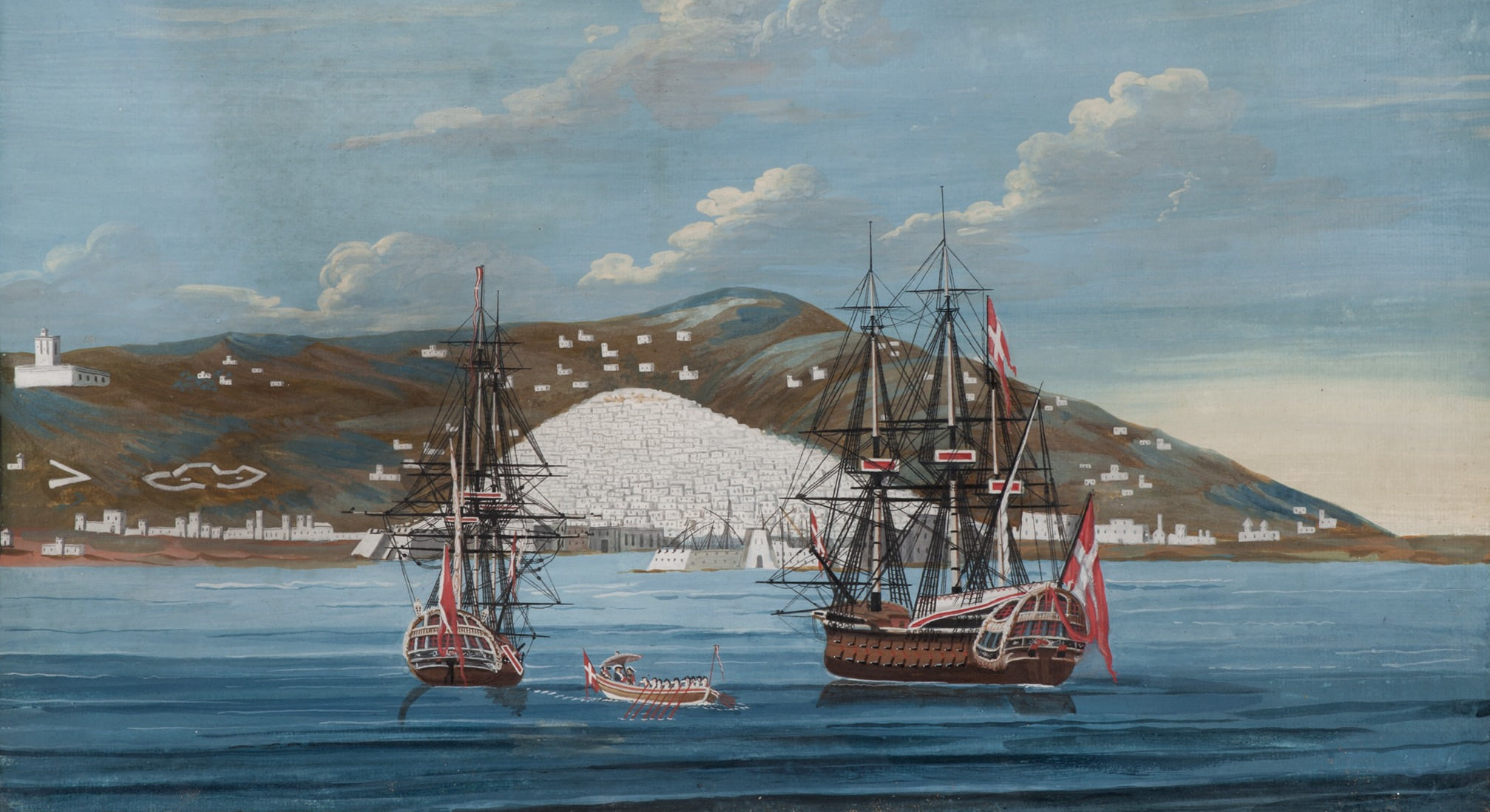 Danish frigate HDMS Falster and ship of the line HDMS Grønland off the coast of Algeria. Unknown contemporary artist.